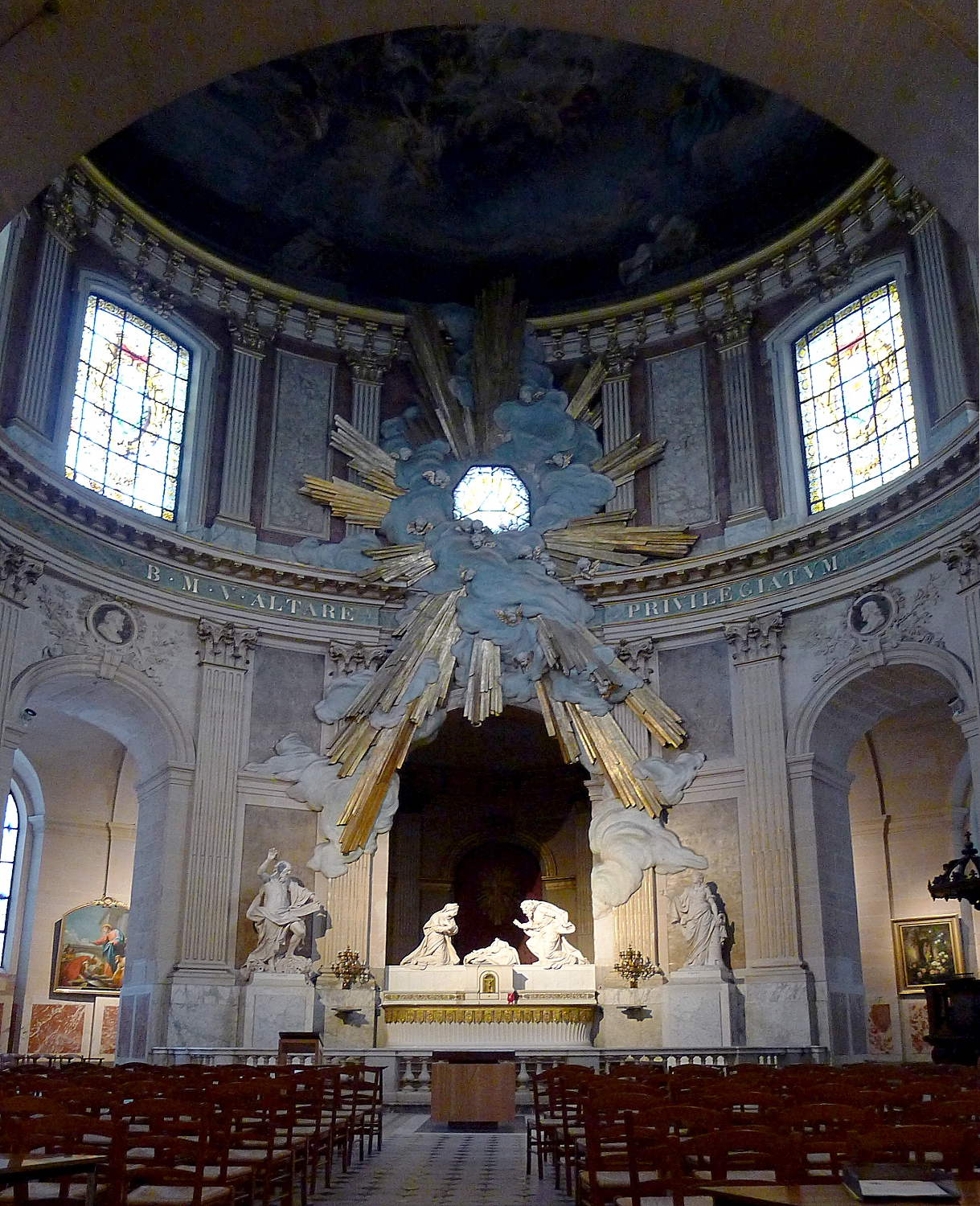 Saint-Roch church - Paris